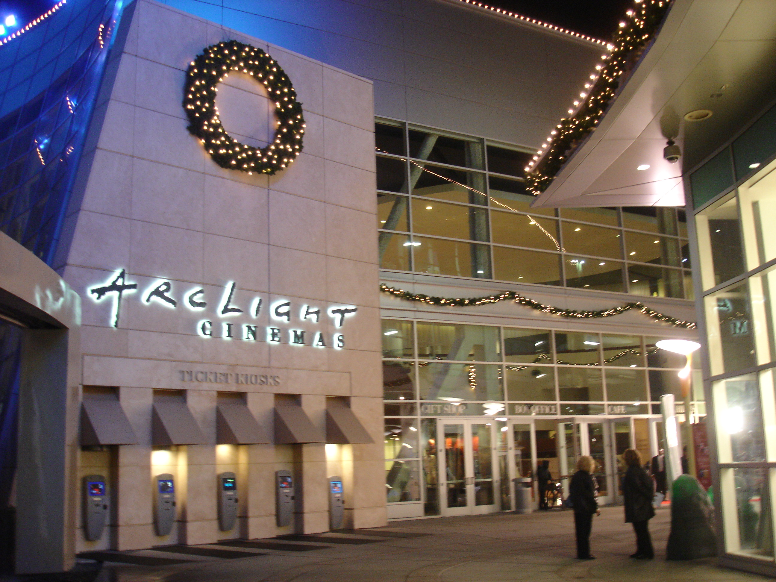 A photo of the courtyard entrance to the Arclight Hollywood multiplex in Hollywood, California.